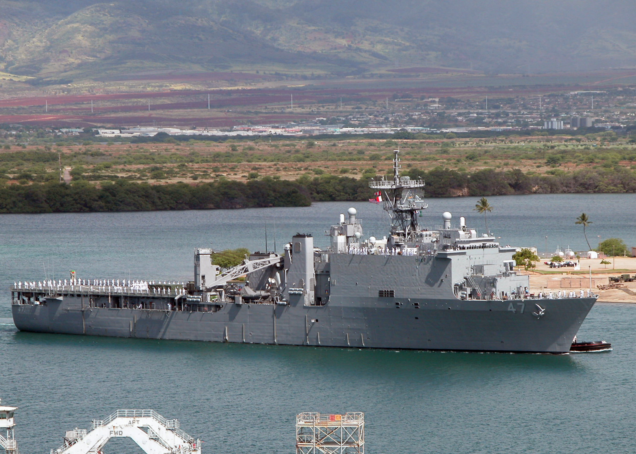 Naval Station Pearl Harbor, Hawaii (June 28, 2004) - Sailors aboard the amphibious dock landing ship USS Rushmore (LSD 47) "man the rails" as the ship pulls into Naval Station Pearl Harbor. Rushmore is in Pearl Harbor to take part in Rim of the Pacific (RIMPAC) 2004. RIMPAC is the largest international maritime exercise in the waters around the Hawaiian Islands. This years exercise includes seven participating nations; Australia, Canada, Chile, Japan, South Korea, the United Kingdom and the United States. RIMPAC is intended to enhance the tactical proficiency of participating units in a wide array of combined operations at sea, while enhancing stability in the Pacific Rim region. U.S. Navy photo by Photographer's Mate 2nd Class Maurice Dayao (RELEASED) For more information go to: /